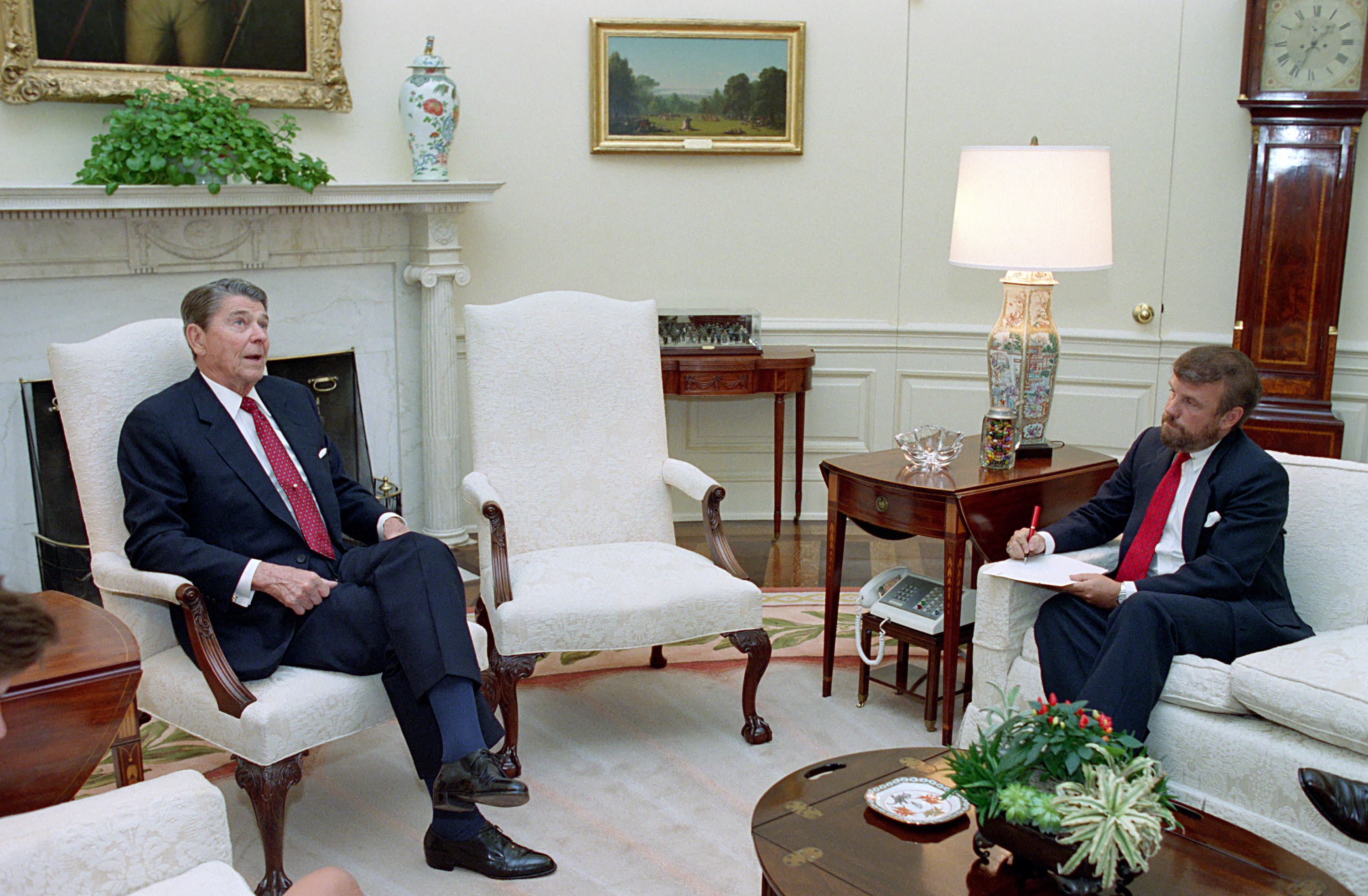 President Ronald Reagan (left) and Anthony R. Dolan (right) meeting in the Oval Office at The White House in 1987. (Source: Ronald Reagan Library)